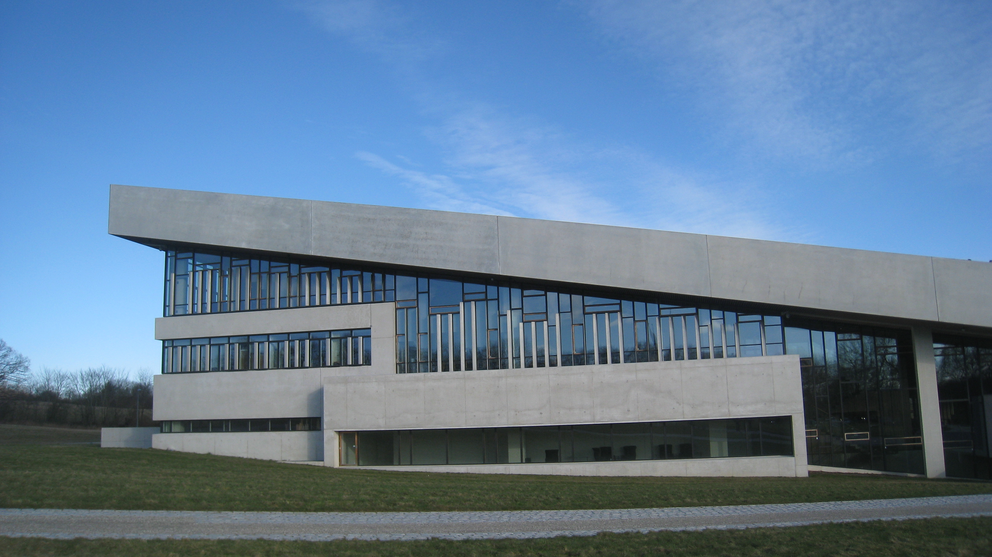 Moesgård museums nye bygning